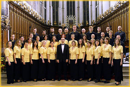 The Mixed Choir Tirnavia, Slovakia